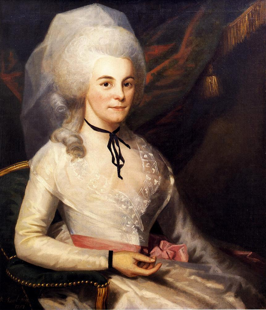 Painted while Earl was in the NY City Jail. Portrait of the wife of Alexander Hamilton, U.S. Secretary of the Treasury and Founding Father.